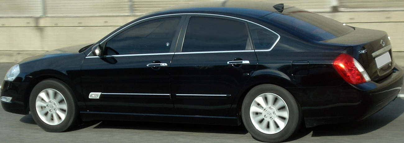 Renault Samsung SM5 New Impression